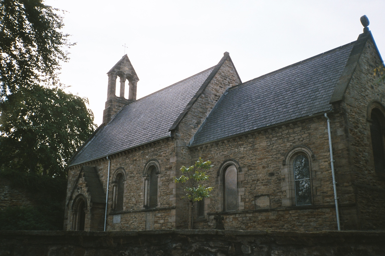 St. John's College chapel, South Bailey, Durham, England